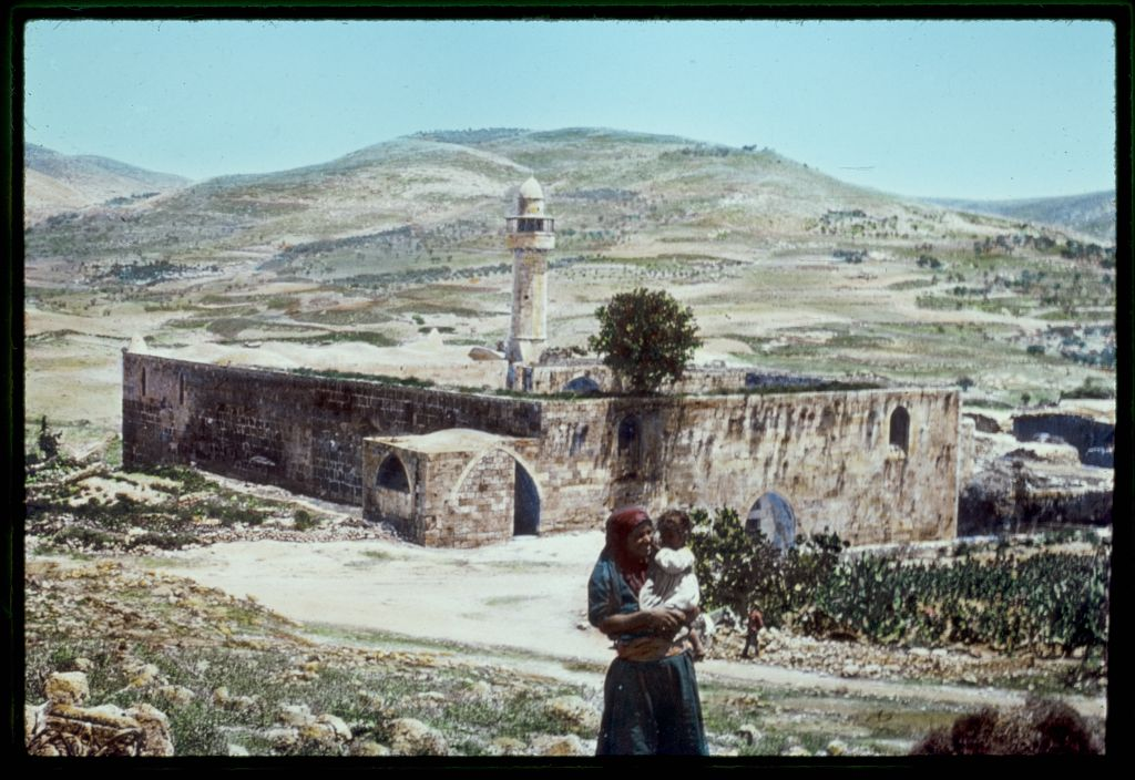 Nabi Yahya Mosque